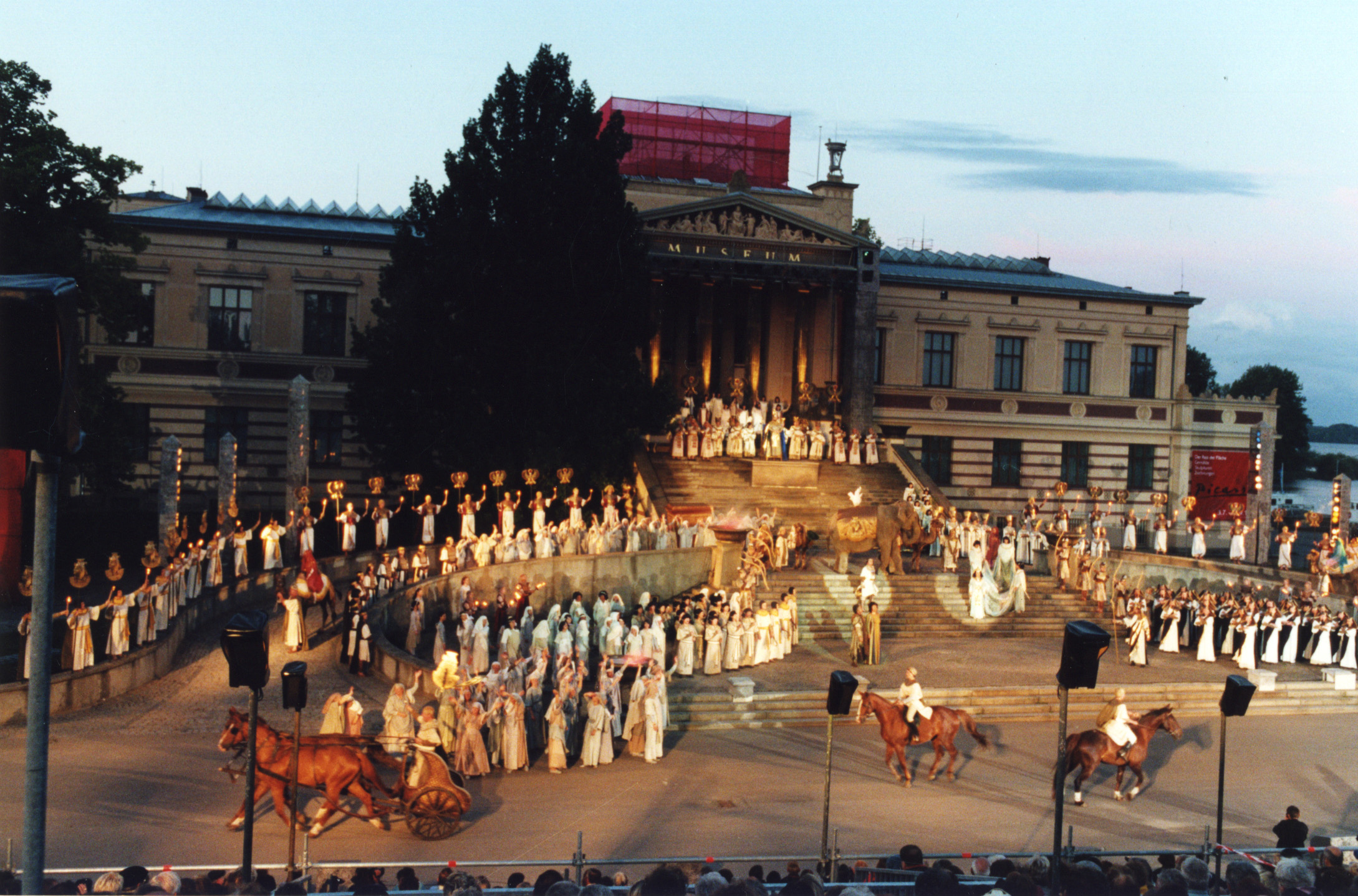 Schlossfestspiele Schwerin 1999